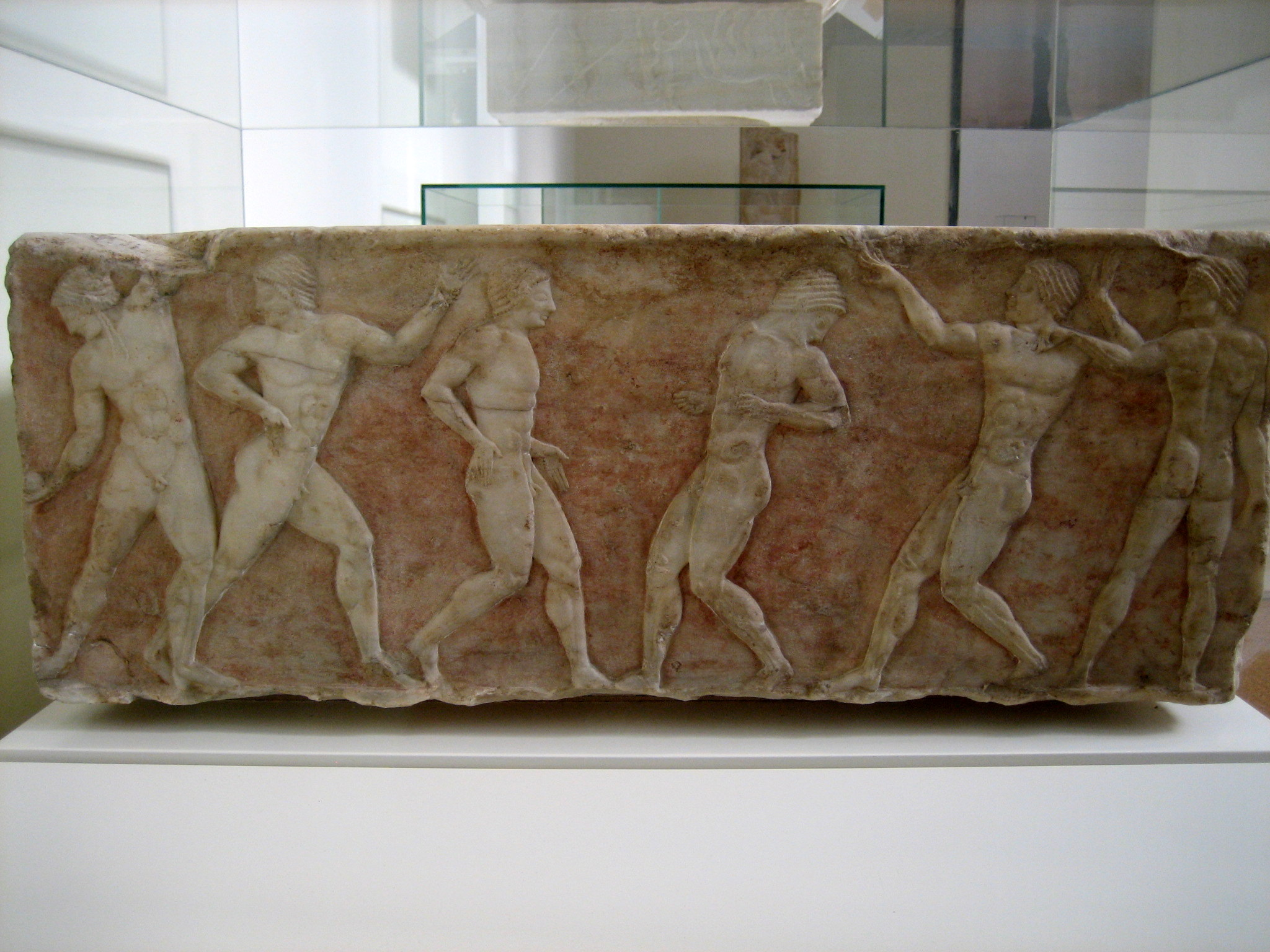 Base of a funerary kouros found in Athens, built into the Themistokleian wall. Three sides are decorated in relief: wrestlers are on the front side, an unspecified athletic game (known as "Ball Players") on the left side, a cat and dog fight scene on the right side. left side